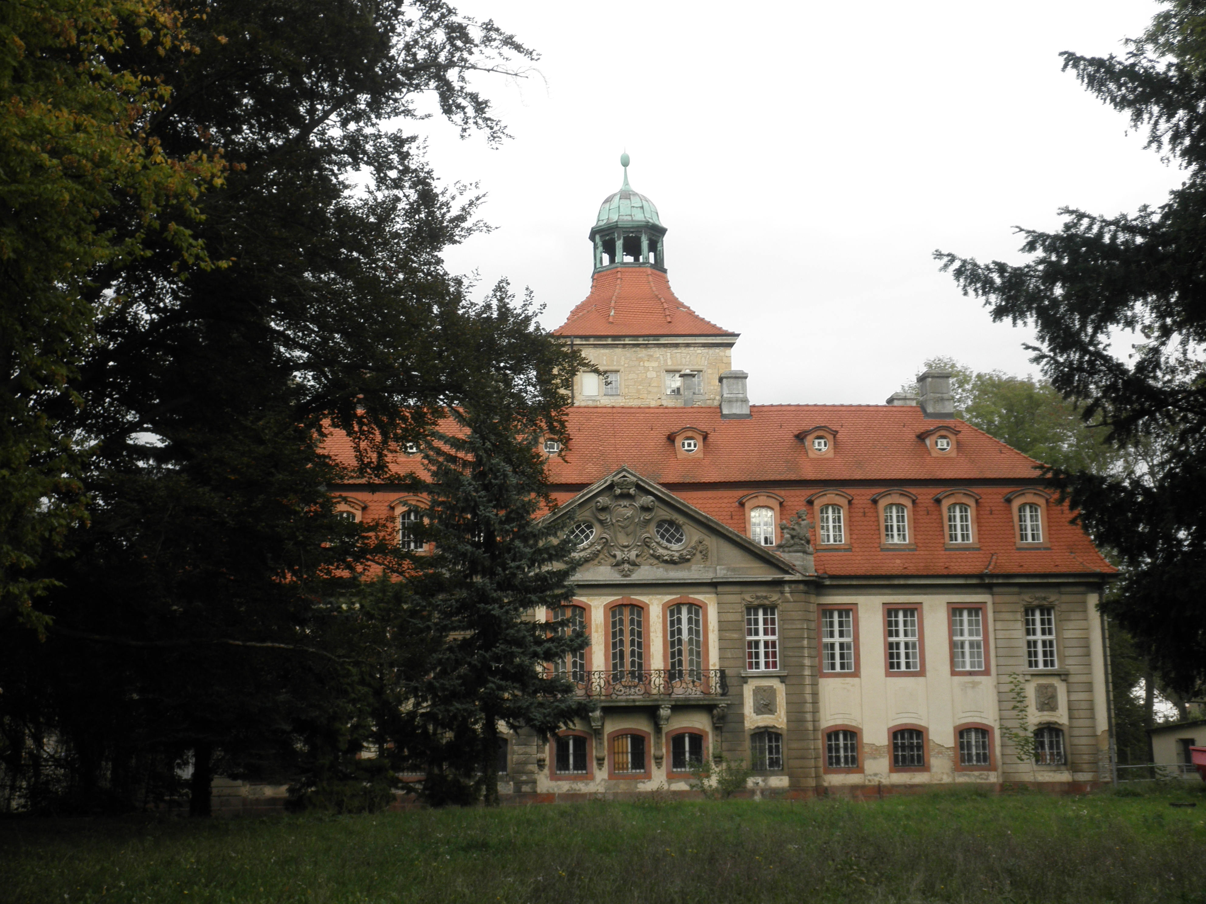 Castle in St. Ulrich Mücheln (Geiseltal)